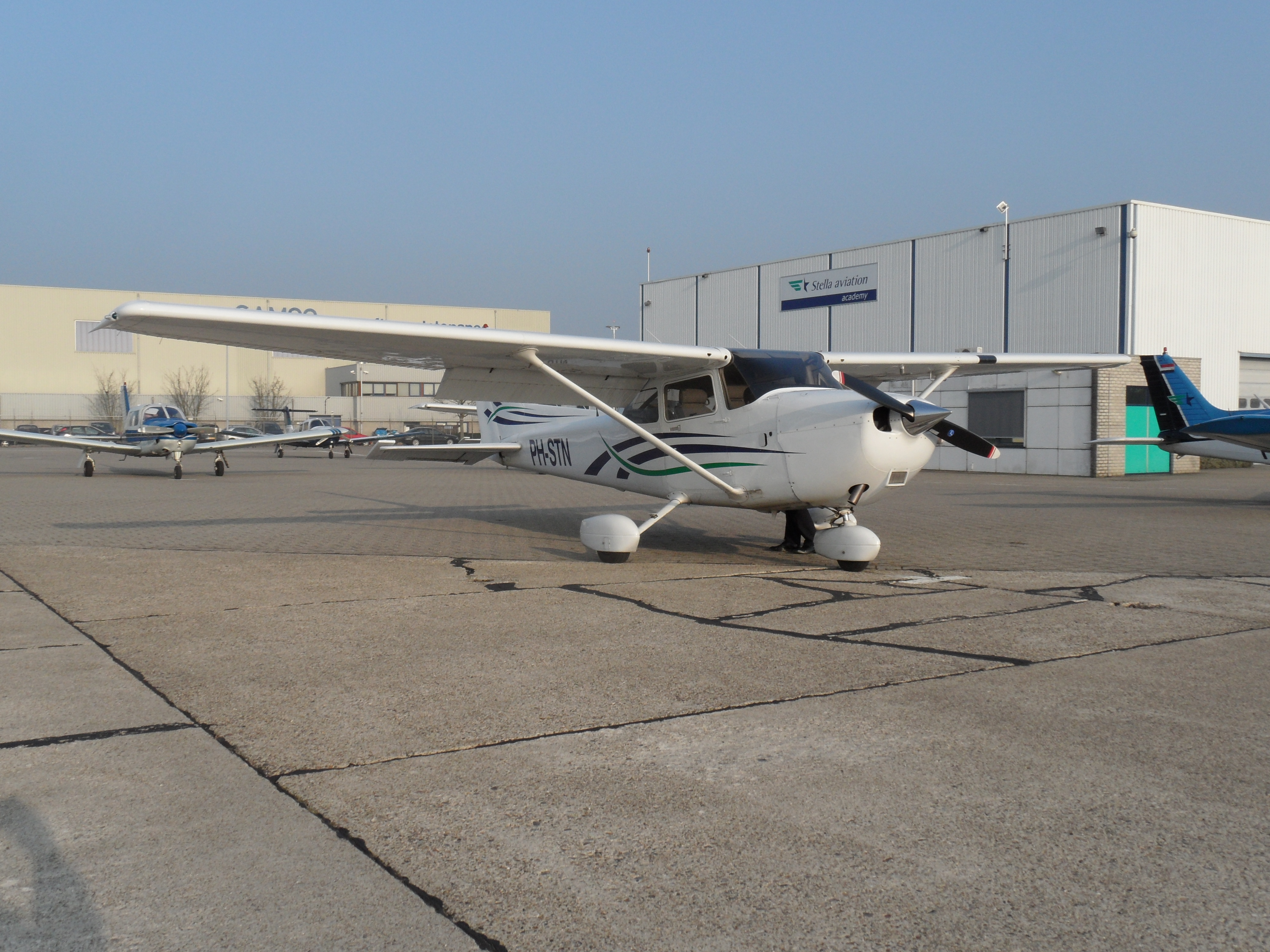 Stella aviation academy : Cessna 172